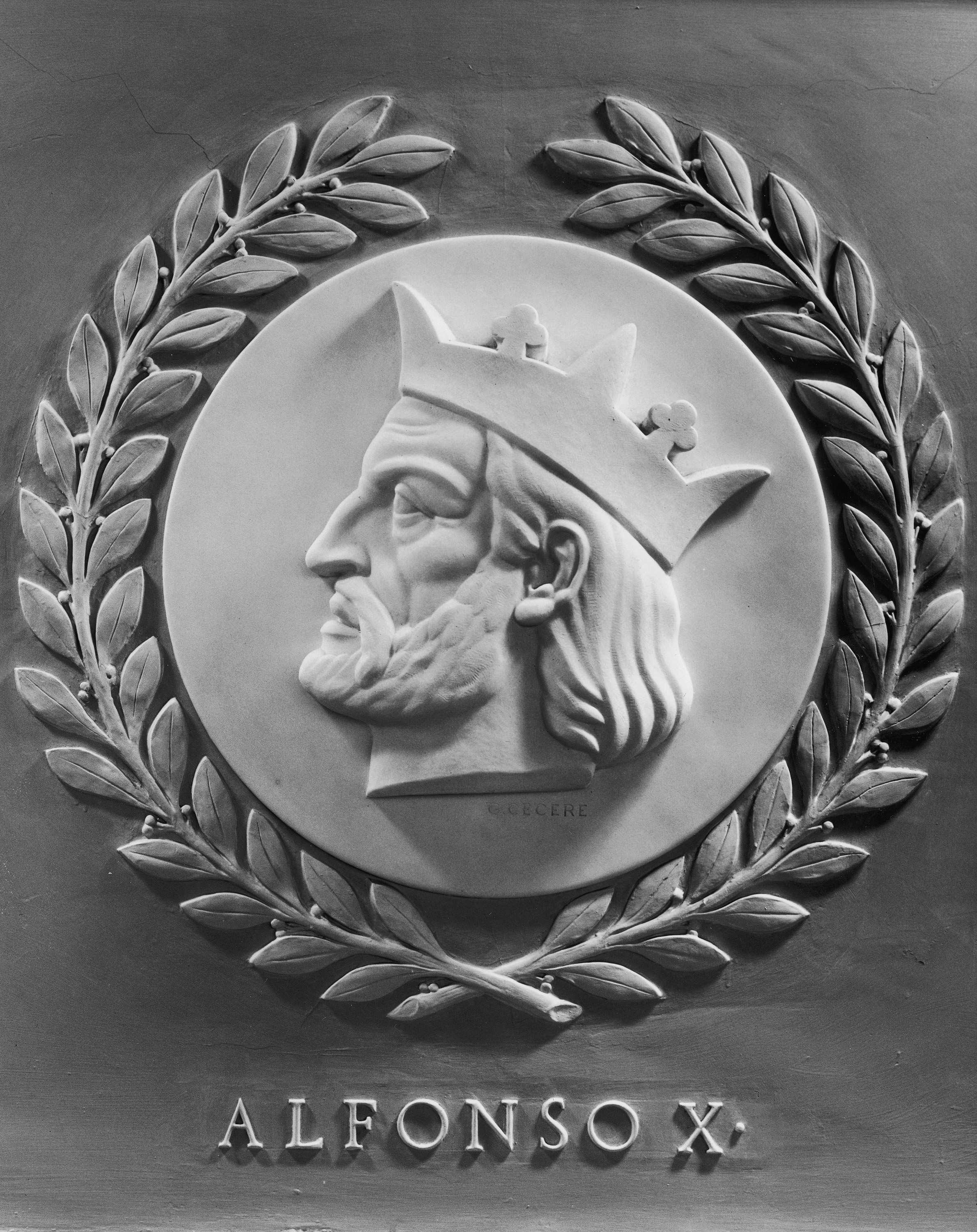 King of León and Castile; author of the Royal Code, a compilation of local legislation for general use; originator of The Seven Parts, the code used as a basis for Spanish jurisprudence. Gaetano Cecere Marble, 28" dia. 1950 House of Representatives Chamber This official Architect of the Capitol photograph is being made available for educational, scholarly, news or personal purposes (not advertising or any other commercial use). When any of these images is used the photographic credit line should read “Architect of the Capitol.” These images may not be used in any way that would imply endorsement by the Architect of the Capitol or the United States Congress of a product, service or point of view. For more information visit